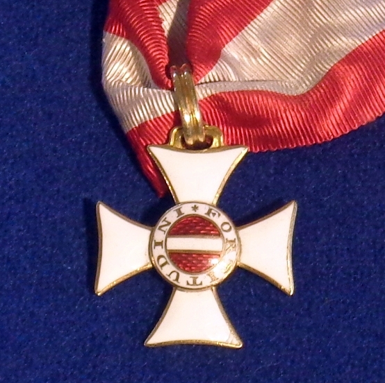 Military Order of Maria Theresa, Knight's badge, c.1802. Austria. The exhibition of the Tallinn Museum of Orders of Knighthood, Estonia.